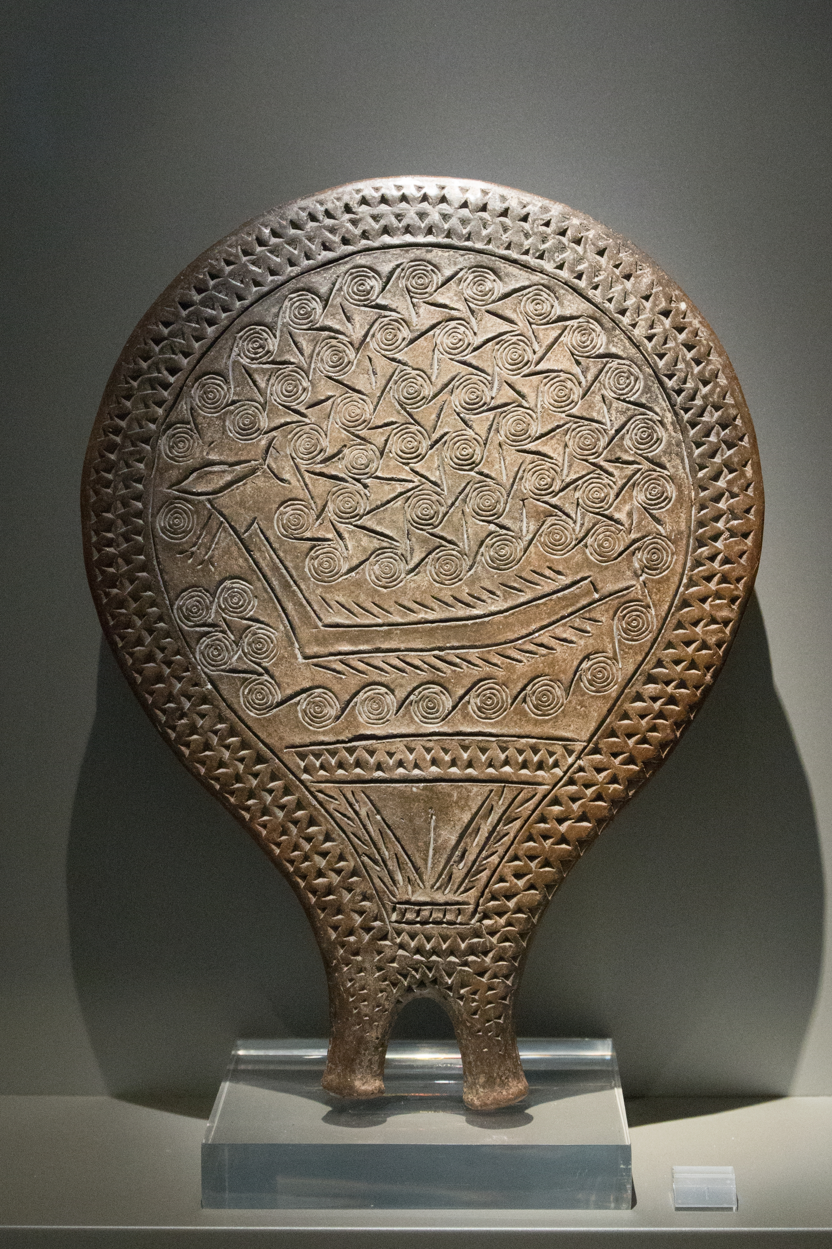 Cycladic frying pan with incised decoration of a boat among spiral-formed waves and a pubic triangle above the handle. From Chalandriani on Syros. Early Cycladic II period, 2800-2300 BC, Keros-Syros culture. Archaeological Museum of Athens, inv. no. 4974.